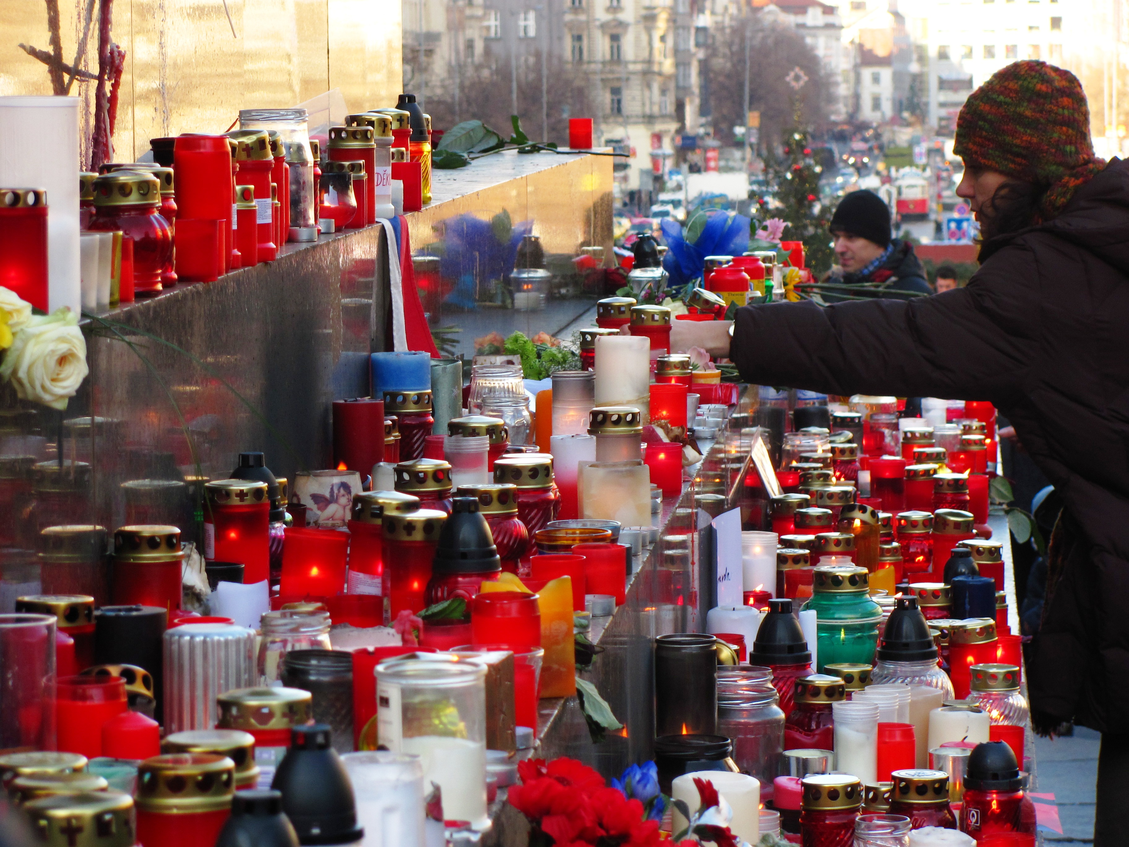 Candles and flowers at Wenceslas Square in Prague in memory of Václav Havel (Dec.19th, 2011)